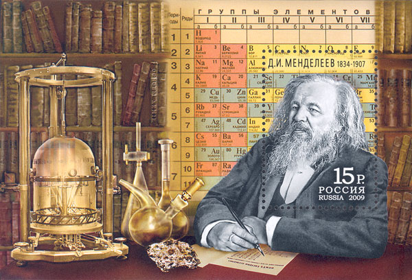 Russian souvenir sheet, Dmitry Mendeleyev, 2009, 15 rubles.